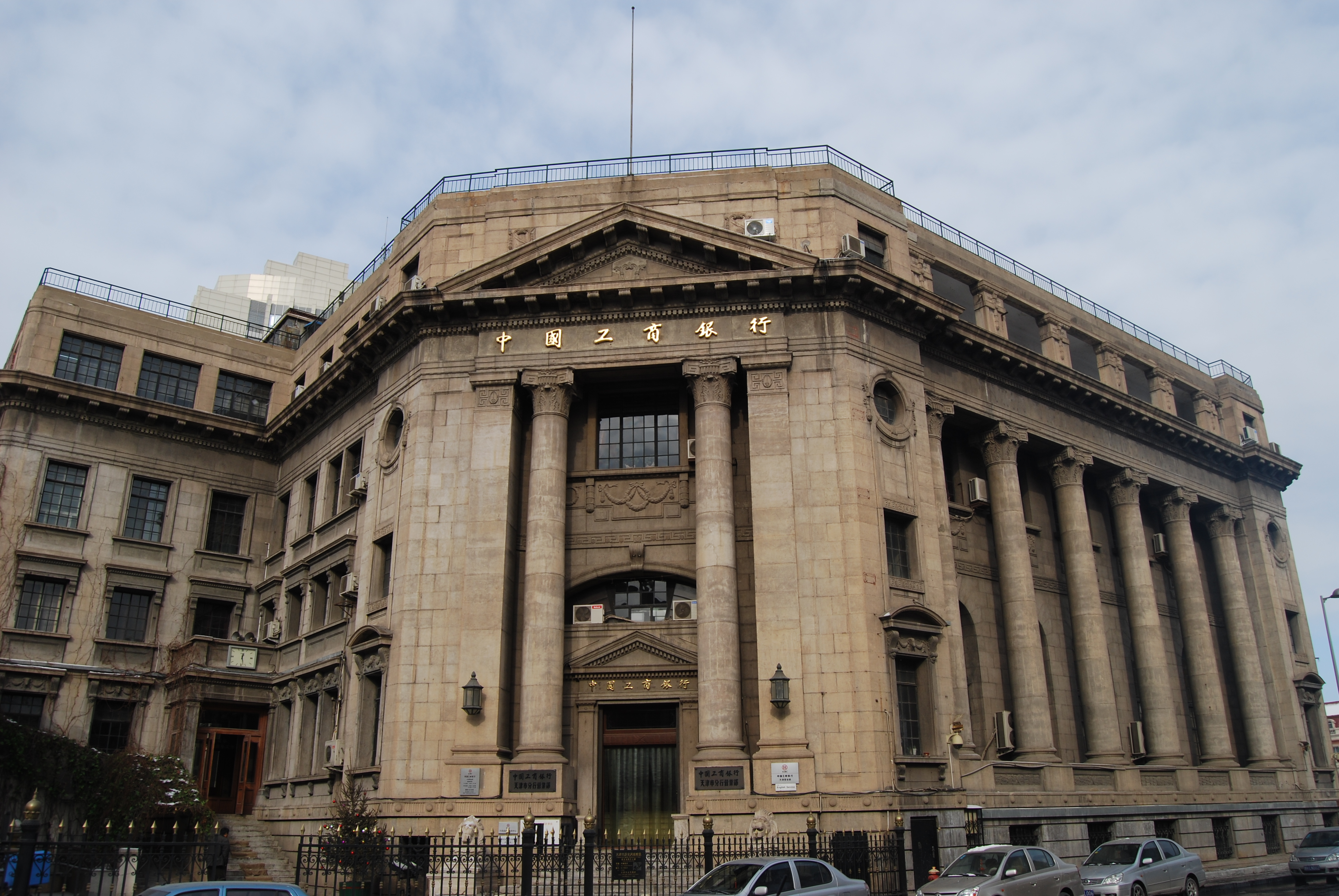 Former Salt Industry Bank in Chifeng Dao No. 12, Heping District, Tianjin